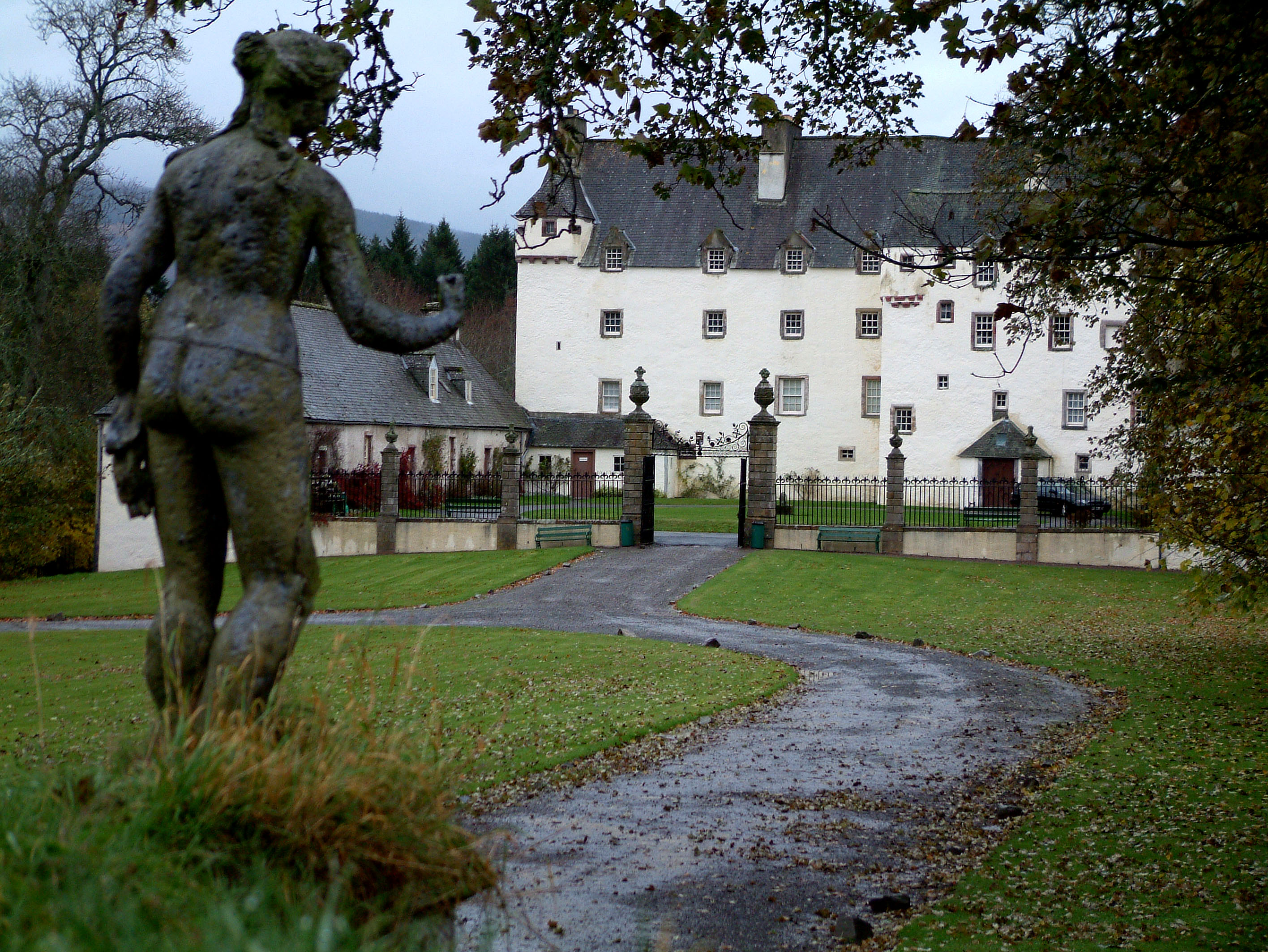 Traquair House near Innerleithen (Scotland)